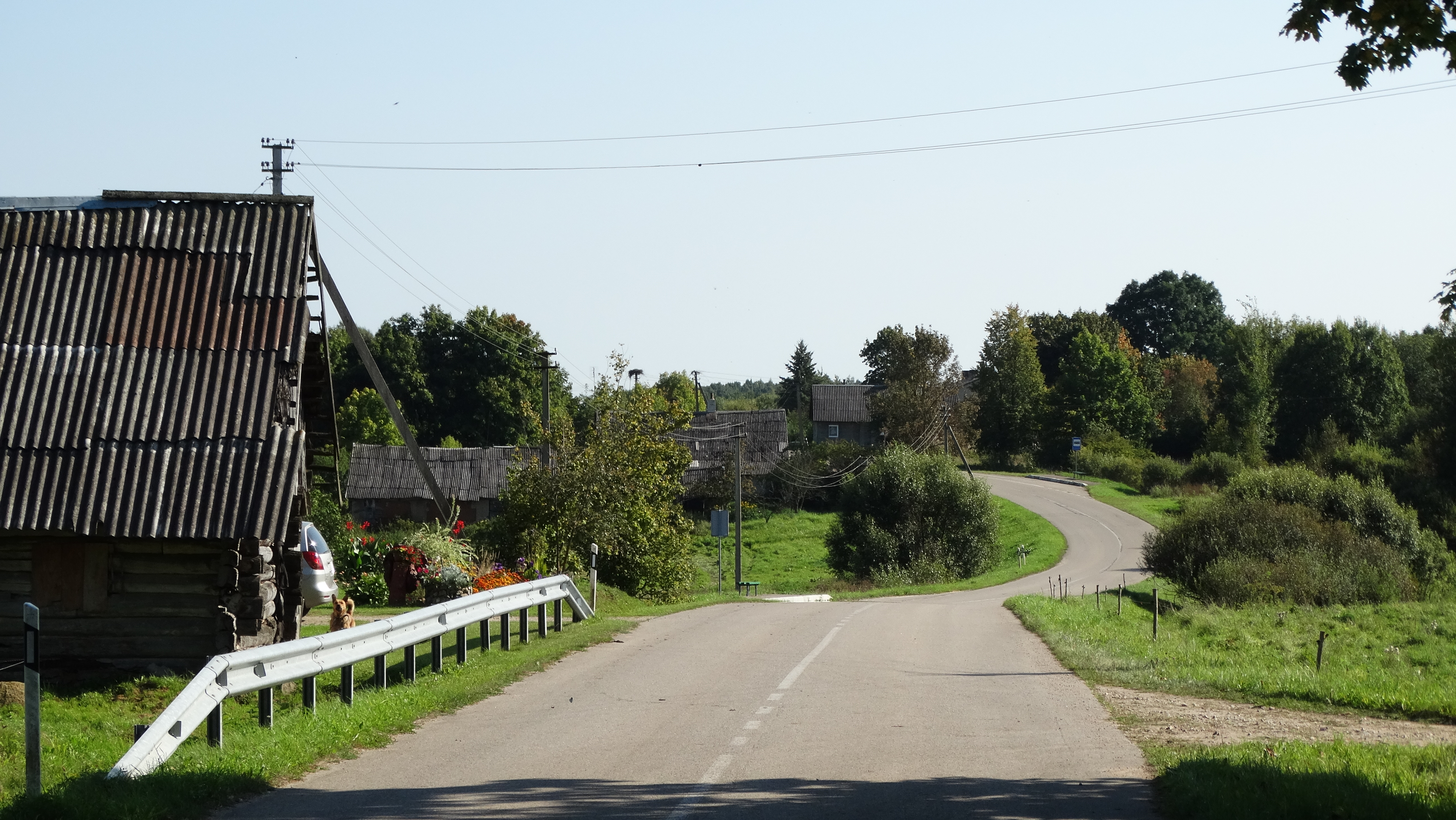 Suvėnai, Zarasai District, Lithuania